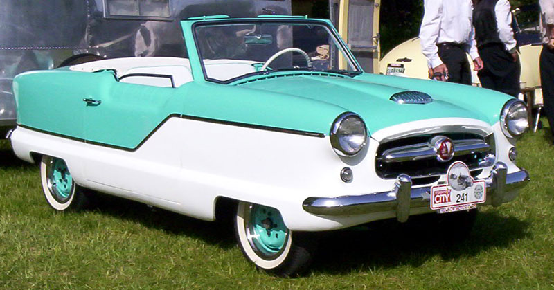 Hudson Metropolitan Convertible 1957 with 1954-55 style grille and hood